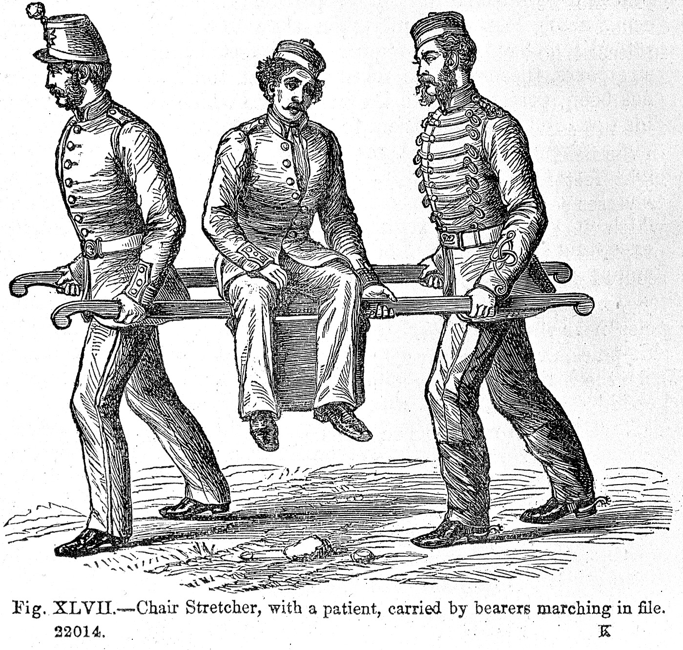 Chair Stretcher, with a patient carried by bearers marching in file. General Collections Keywords: Military Medicine